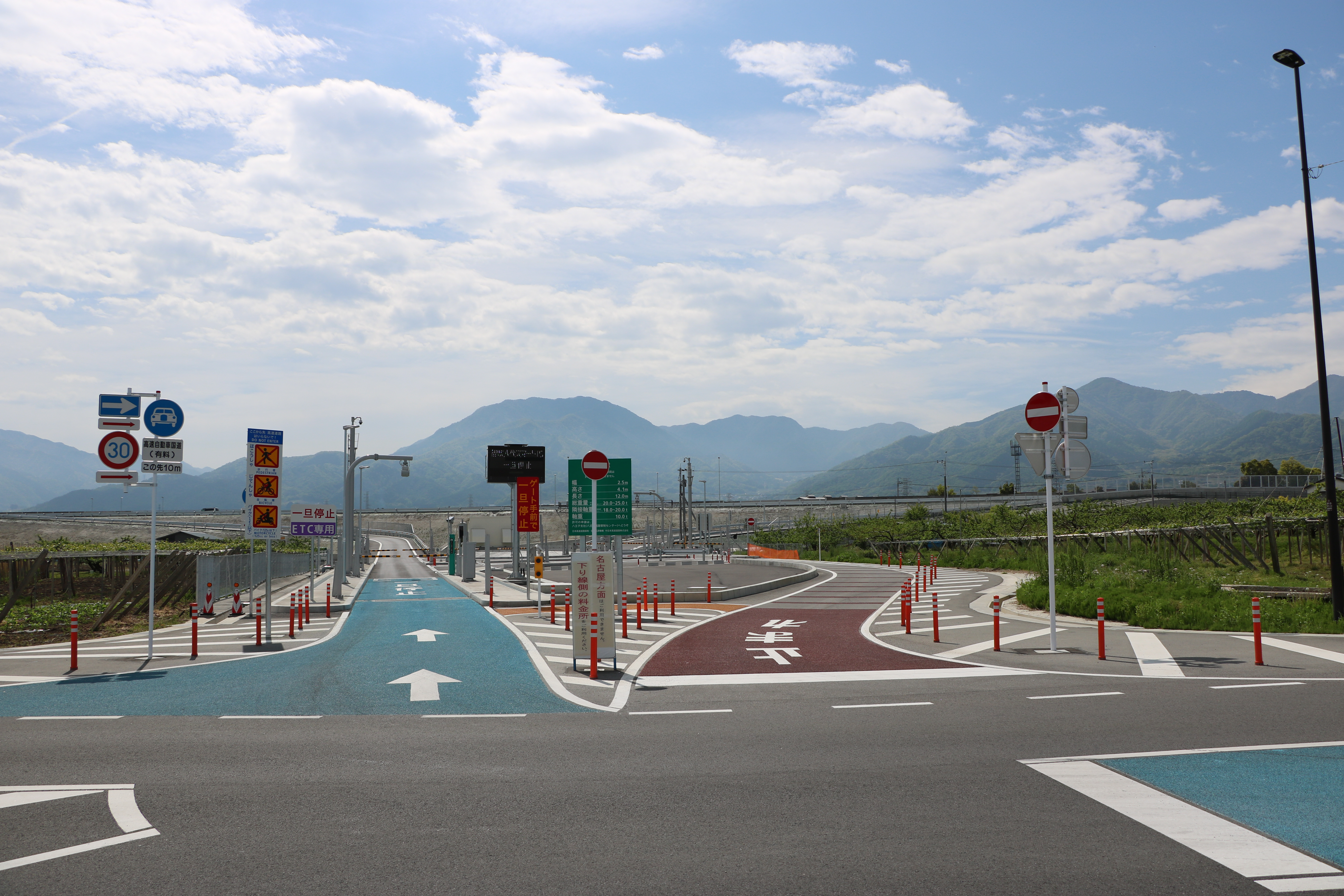 Fuefuki-Yatsushiro Smart interchange (the up line gate)